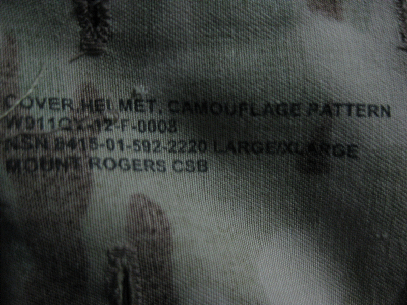 NSN Label on the cover of ACH.